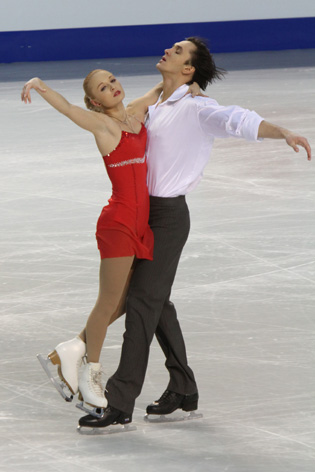 Maria Mukhortova and Maxim Trankov at the 2010 European Figure Skating Championships.